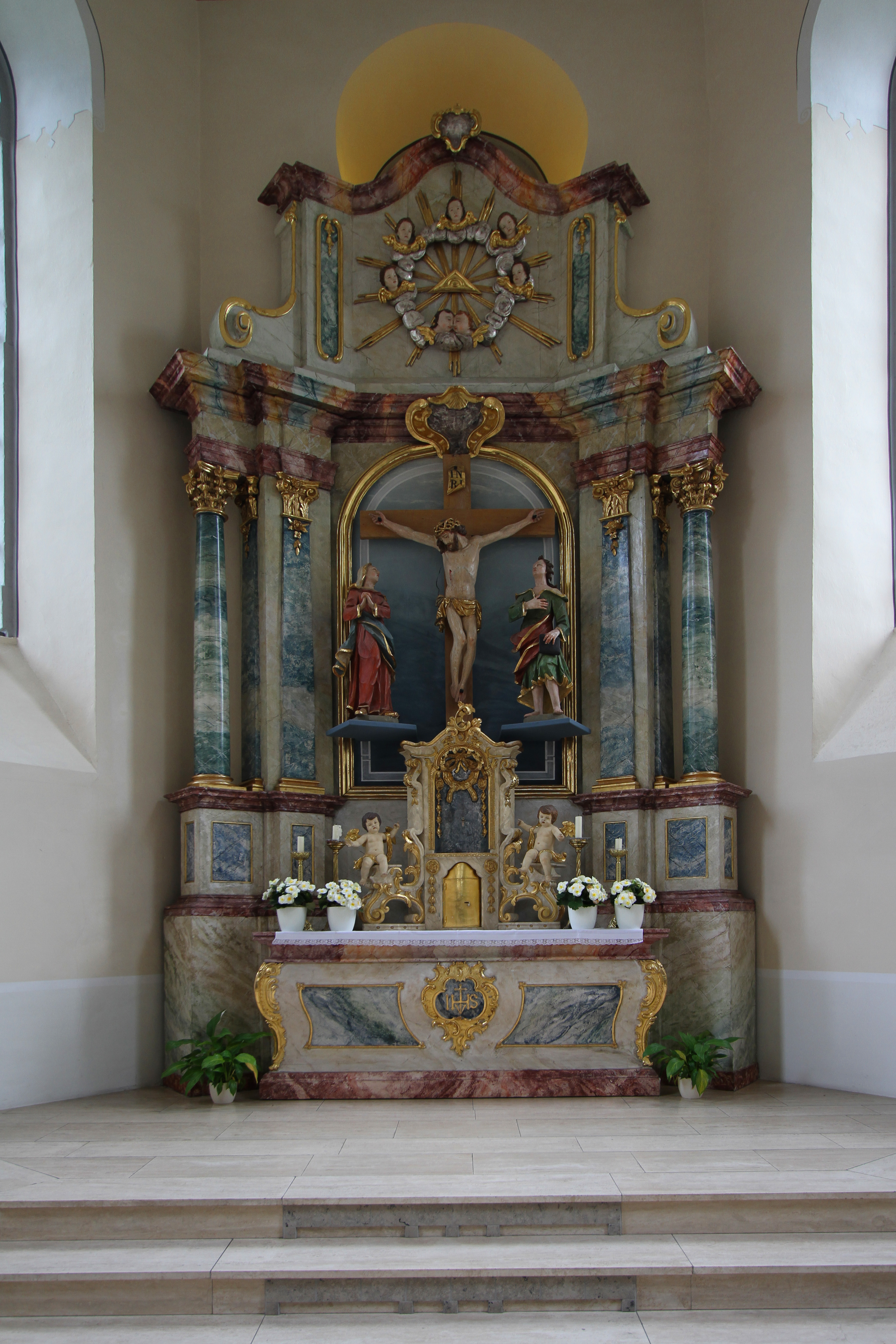 Church of St. Bartholomäus in Zeiskam, interior decoration.